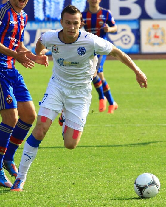 Aleksandr Salugin with FC Volga Nizhny Novgorod.